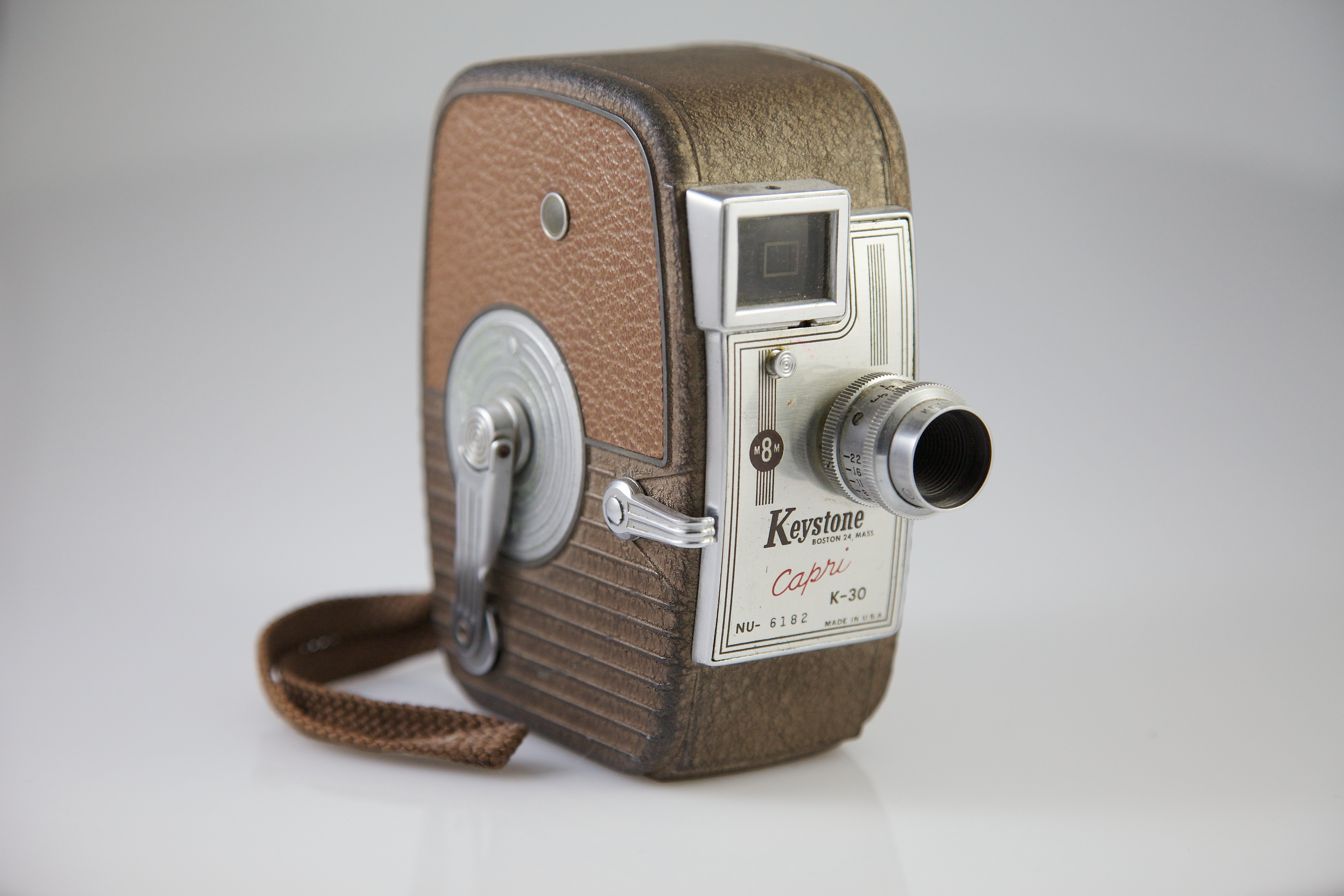 Keystone Capri K-30 movie camera. Early 8mm home movie camera - still works! c.1957 made in Boston, Mass.